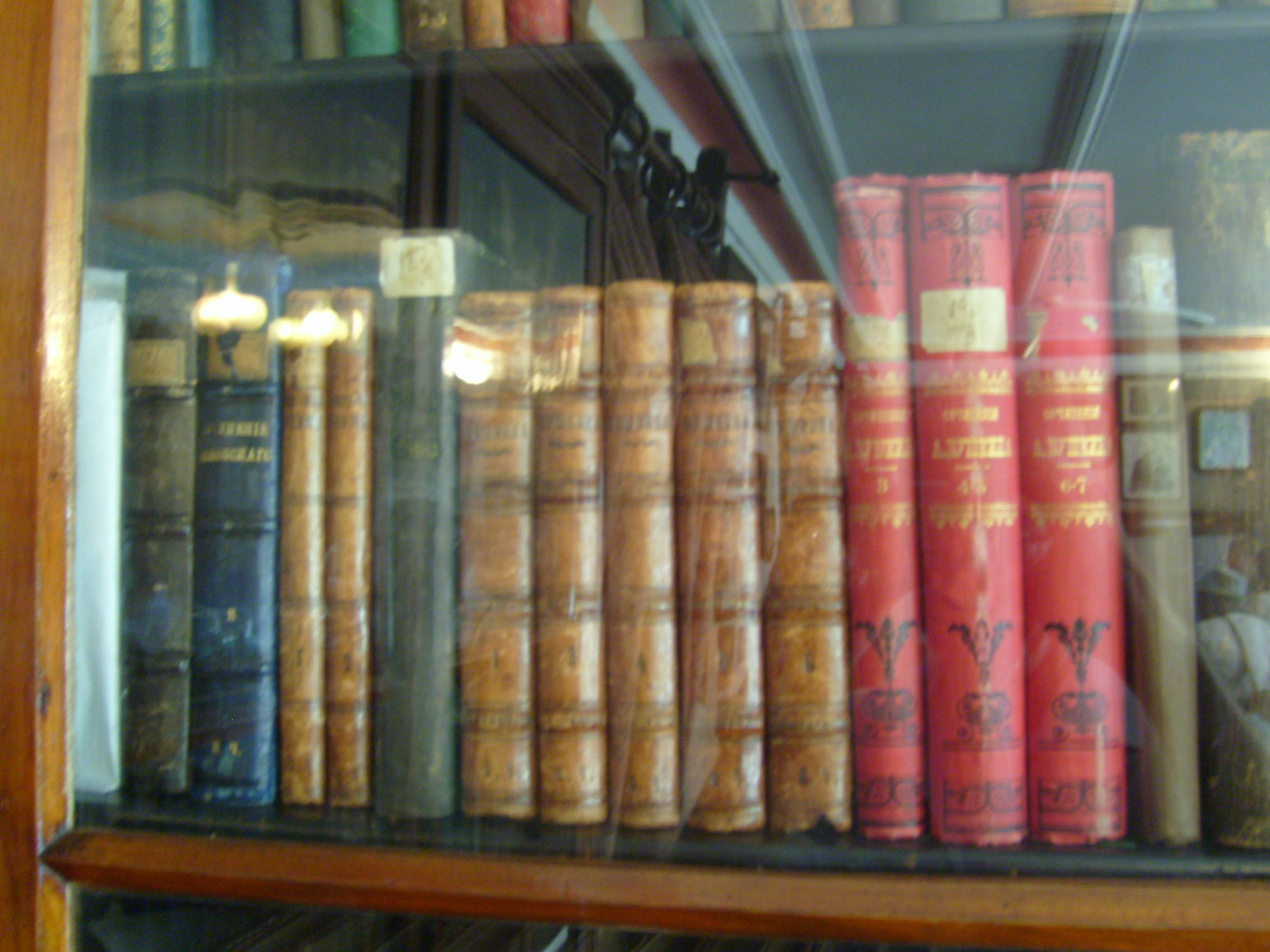 The collected works of Pushkin in Tchaikovsky's library at Klin.